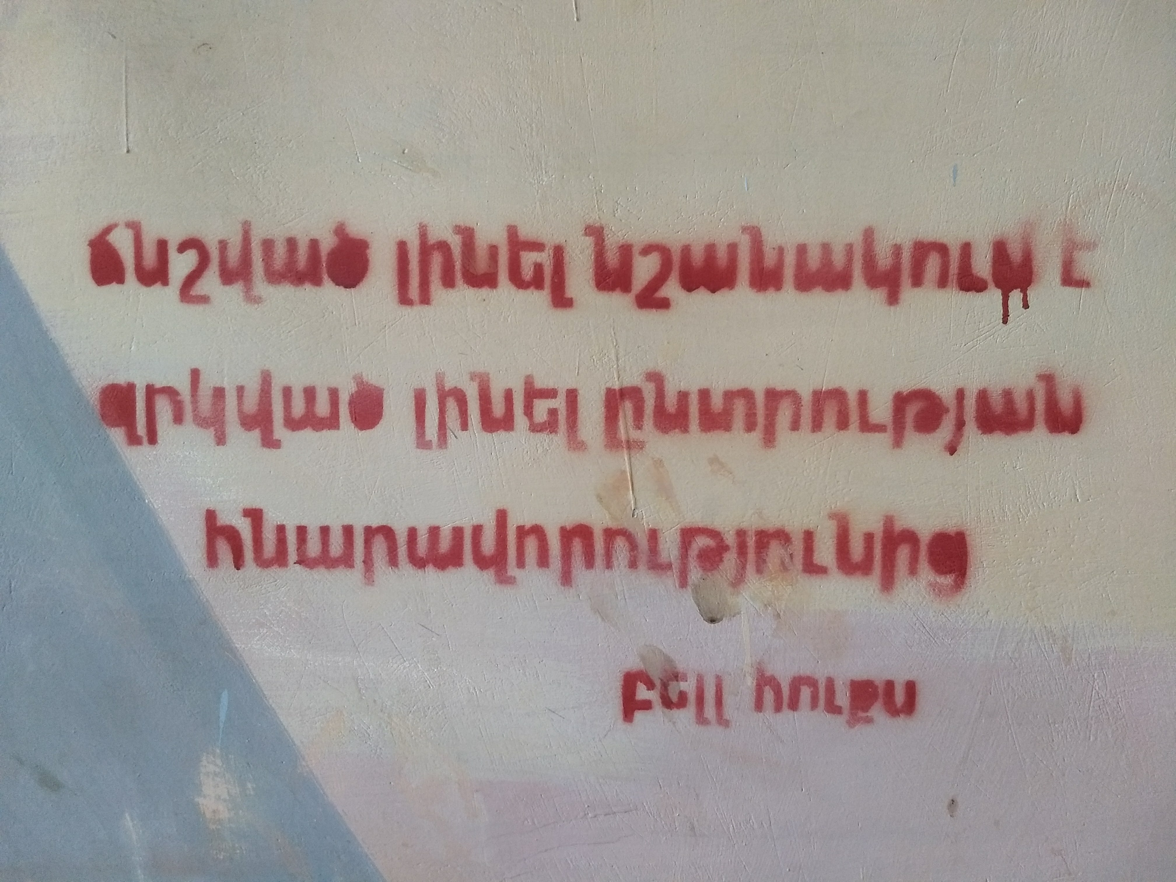 Graffiti about freedom and oppression on the streets of Yerevan in the days leading up to the revolution. It is a translated quote of the author bell hooks, saying "To be oppressed means to be deprived of your ability to choose."